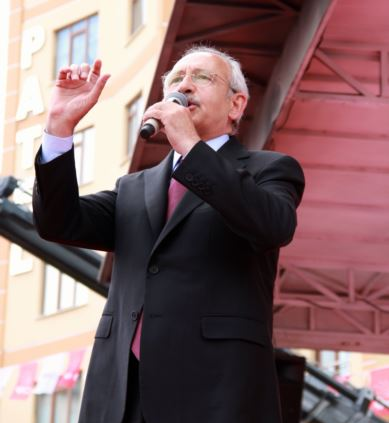 Republican People's Party leader Kemal Kılıçdaroğlu during an electoral rally for the 2015 general election